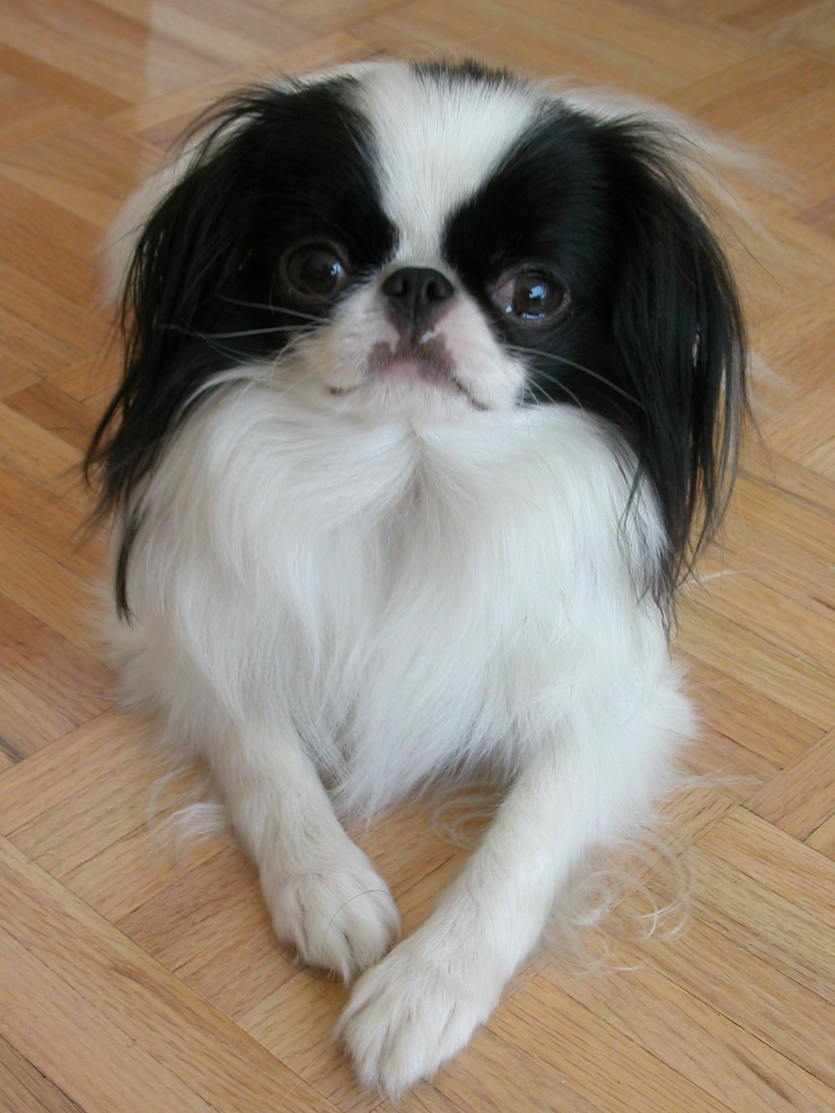 The Japanese Chin is very attentive